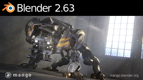 Splash screen of Blender 2.63